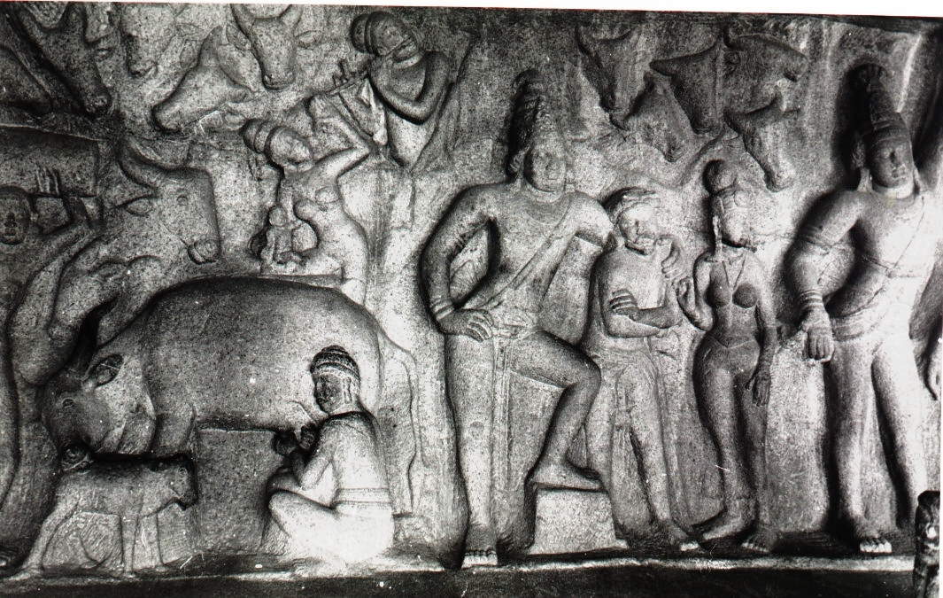 Krishna in the Monte Govardhana, Mahabalipuram, Tamil Nadu, India. Pallava Dynasty, S. VII